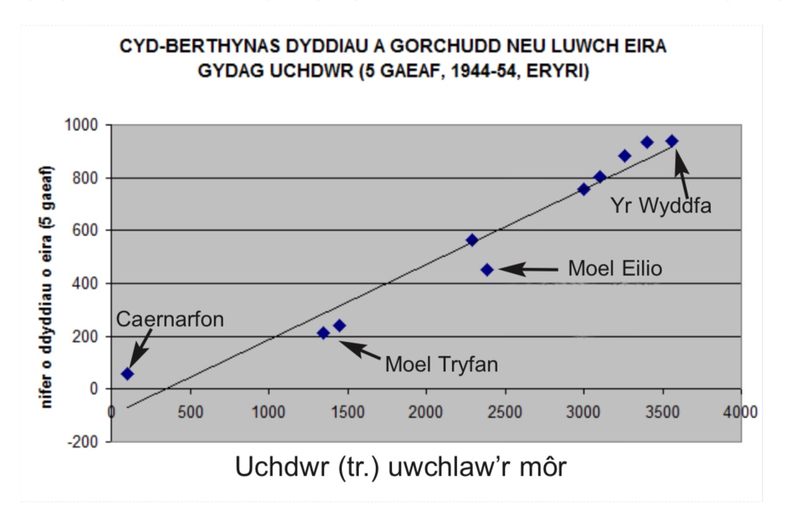 Graph showing the relationship between a height and snow continuity in Snowdonia (based on Les Larsen data with permission)